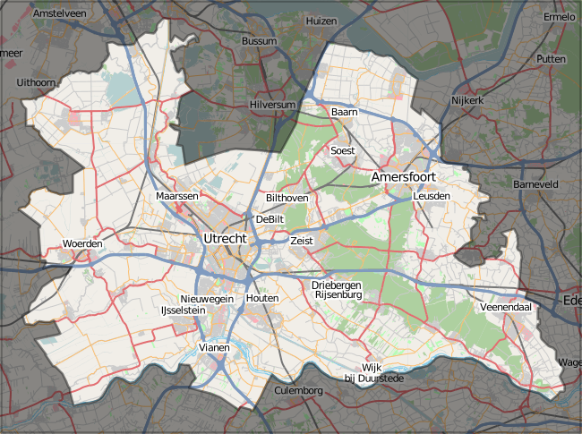 of Utrecht Province (Netherlands), overlayed with the borders of this province from CBS data.